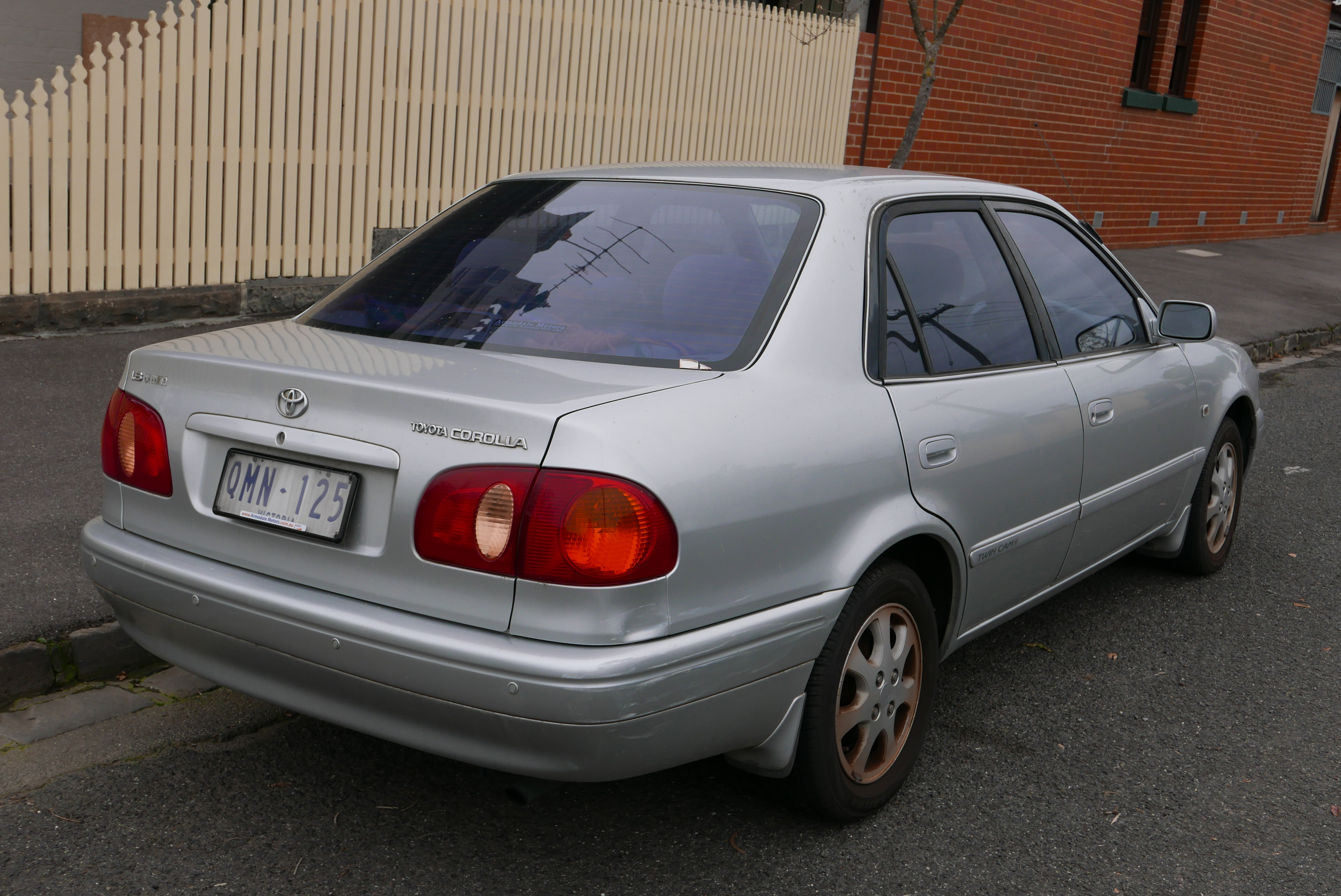 2000 Toyota Corolla (AE112R) Ultima sedan. Photographed in Fitzroy North, Victoria, Australia. Vehicle registration enquiry results Jurisdiction Victoria Registration QMN125 Chassis code JT753AEB200043217 Engine code 7AJ016525 Compliance date 2000-10 Year of manufacture 2000